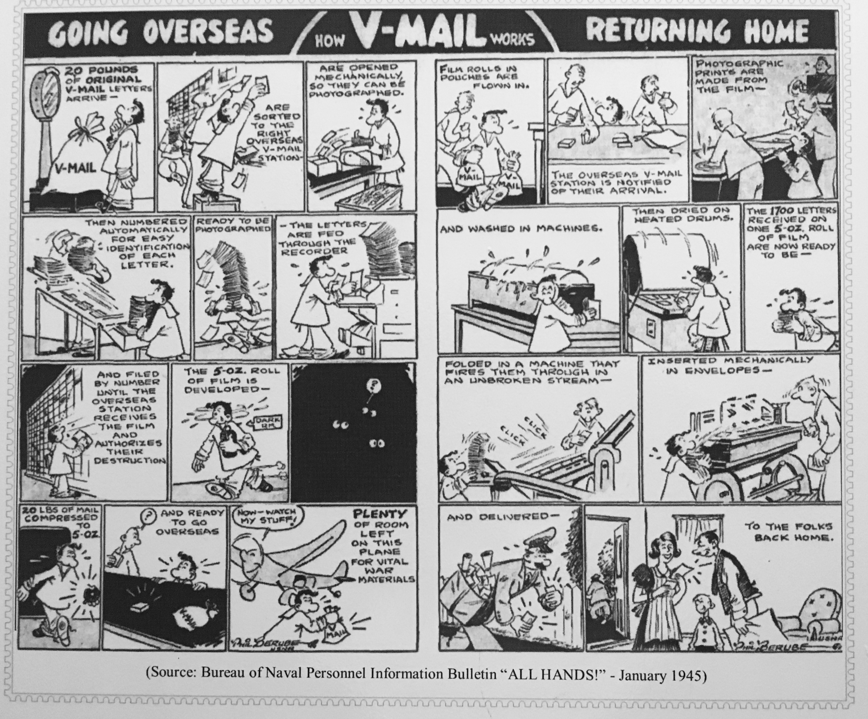 Explanation of the V-Mail System in the Ship's Post Office, USS Alabama (BB-60)